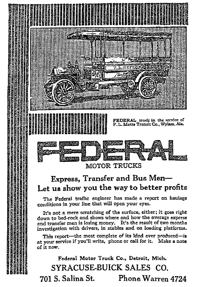 Federal Motor Truck Co. - July 1914